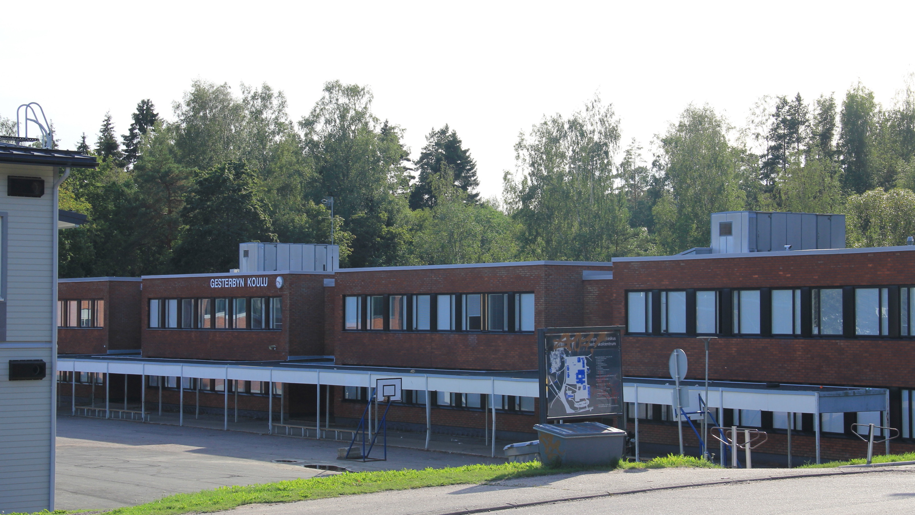 Gesterby school main building, Gesterby, Kirkkonummi, Finland.